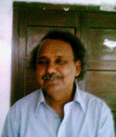 Khondakar Ashraf Hossain on April 10, 2012.